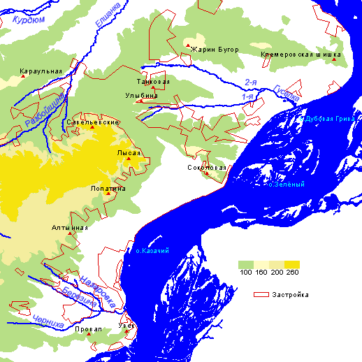 Saratov relief features